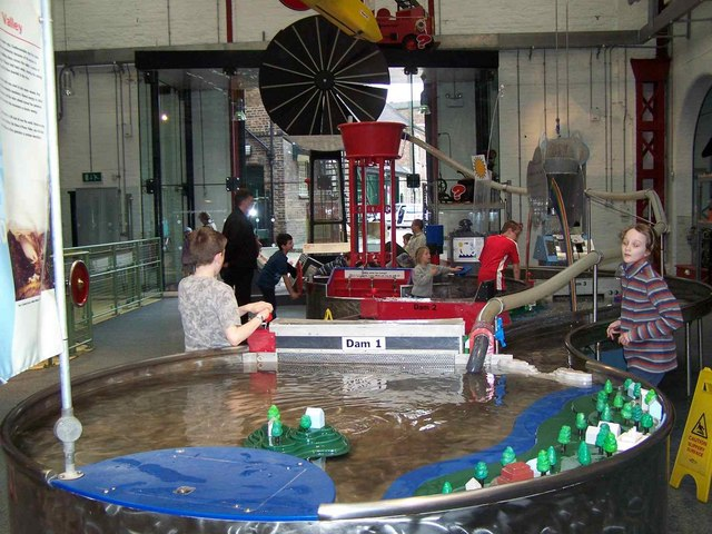 Water Zone, Enginuity, Coalbrookdale One of the 10 museums in the Ironbridge Gorge, Enginuity provides hands-on Science experiments for children. This section encourages children to work together to maintain water flow using dams, an archimedes screw, pumps, etc.